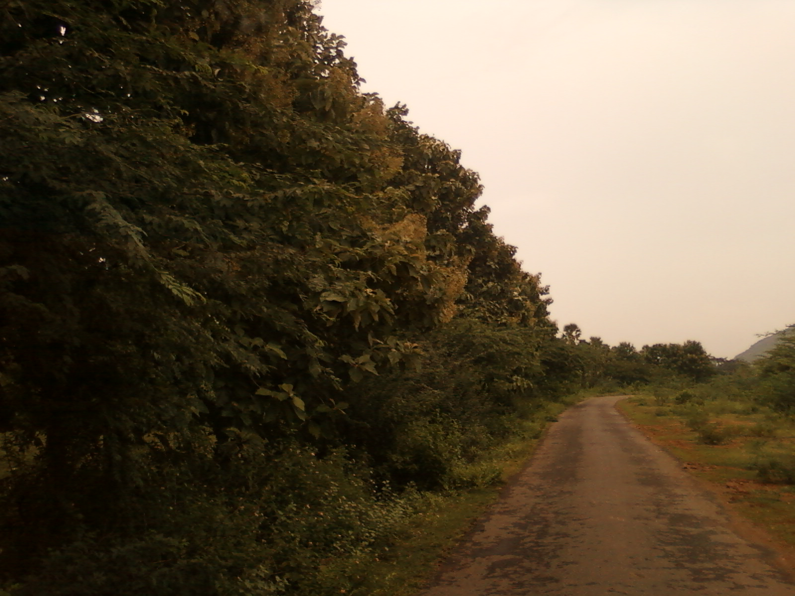 Rural road near Vellanki, Visakhapatnam district